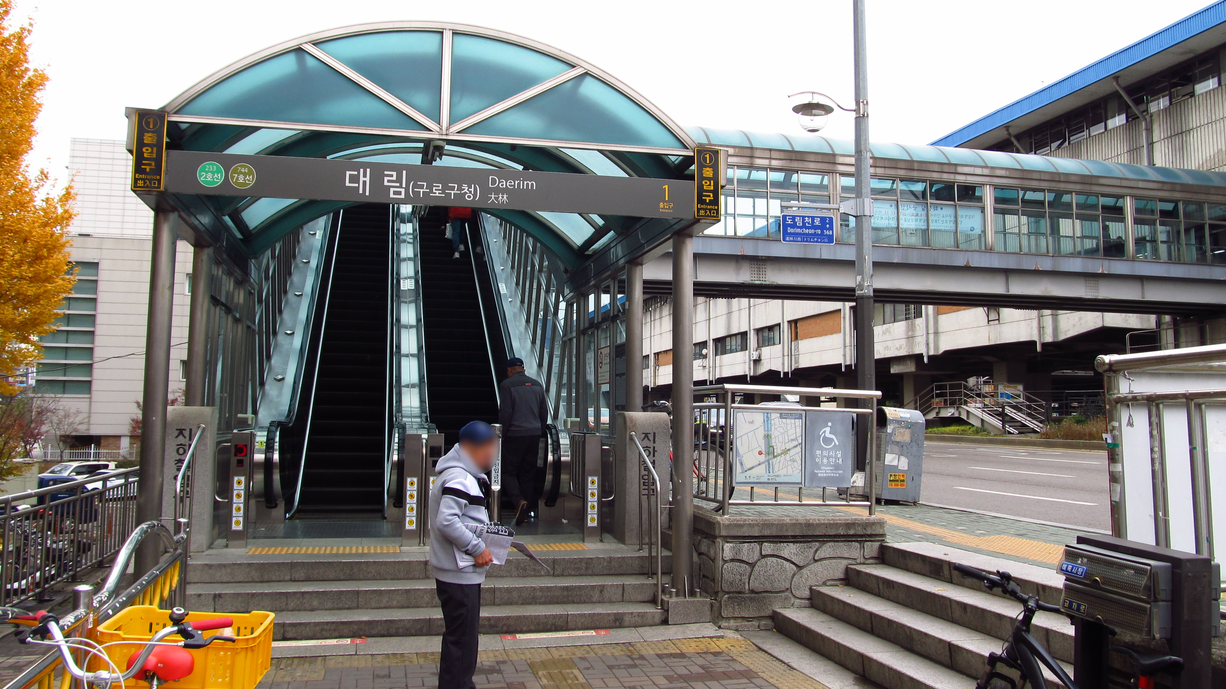 The no.1 entrance to Daerim Station on the Seoul Metro Line 2 and Line 7 in Guro-gu, Seoul, Republic of Korea(South Korea)